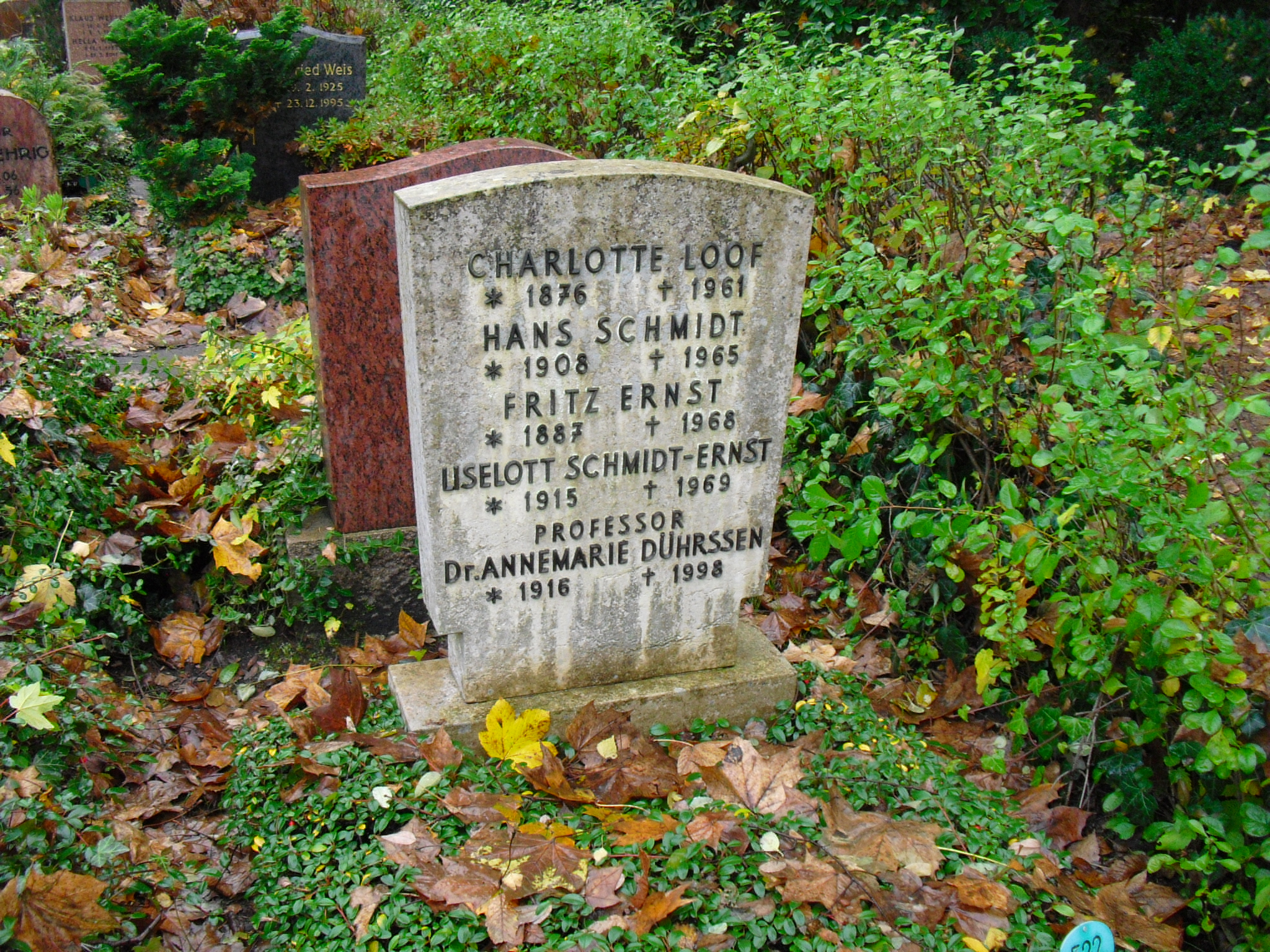 Grave of German psychatrist Annemarie Dührssen in Friedhof Heerstraße in Berlin-Westend